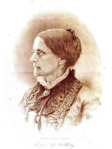 Lithograph of Susan B. Anthony